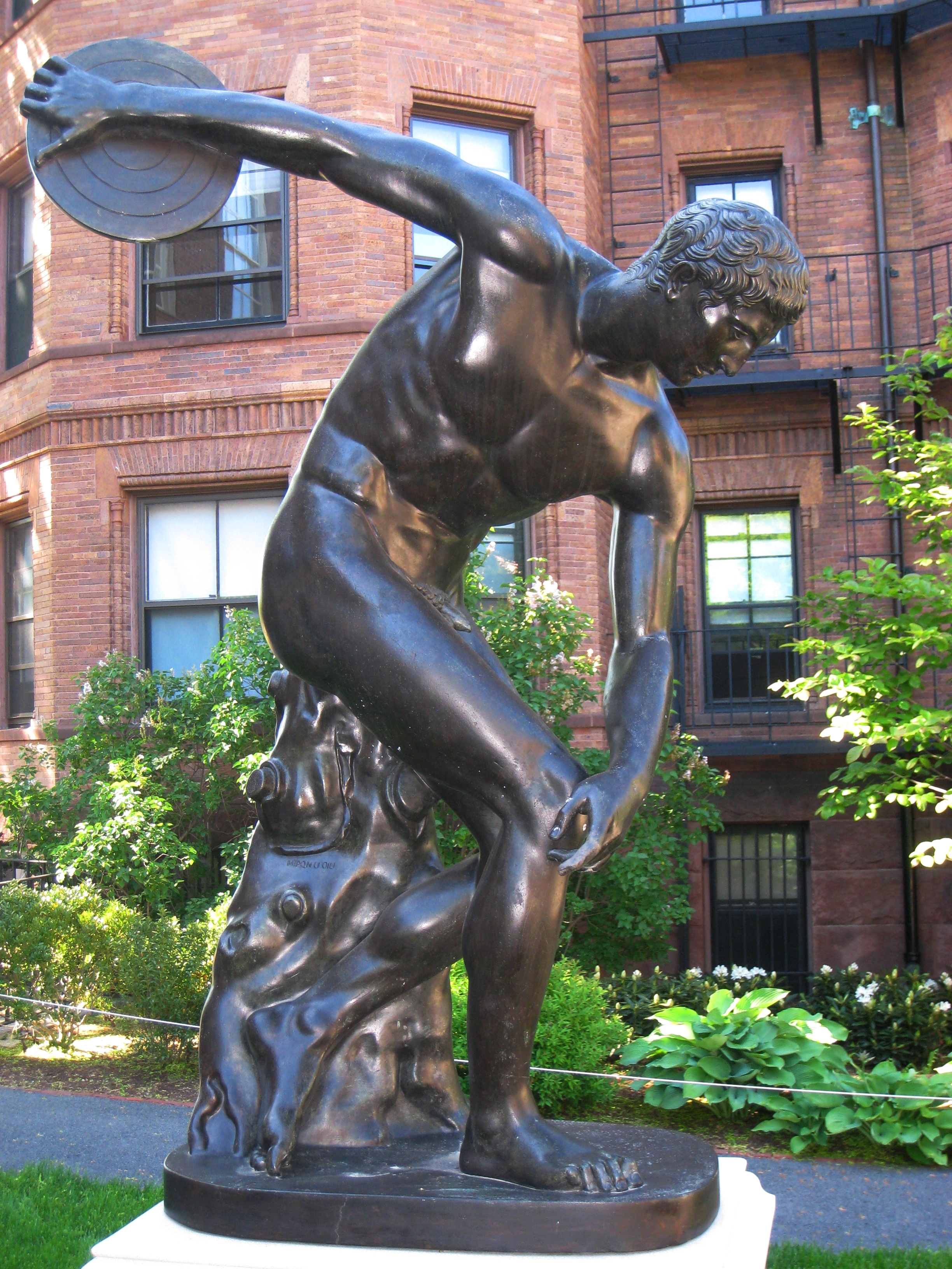 Discobolus sculpture, Harvard Law School, Harvard University, Cambridge, Massachusetts, USA. Copy of work in the Vatican Museum, by Fonderia Chiurazzi (Naples).